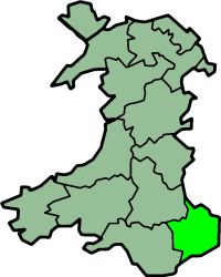 Monmouthshire, one of the historic counties of Wales